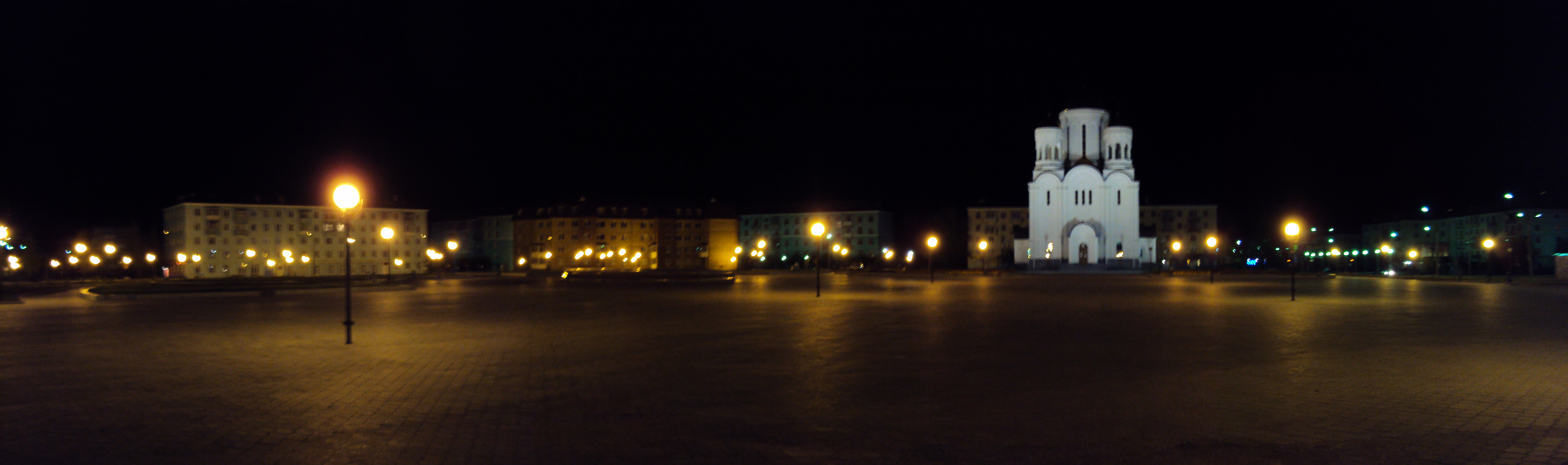 Preobrazhenskaya Square in Serov at 5:30 am at the end of September.